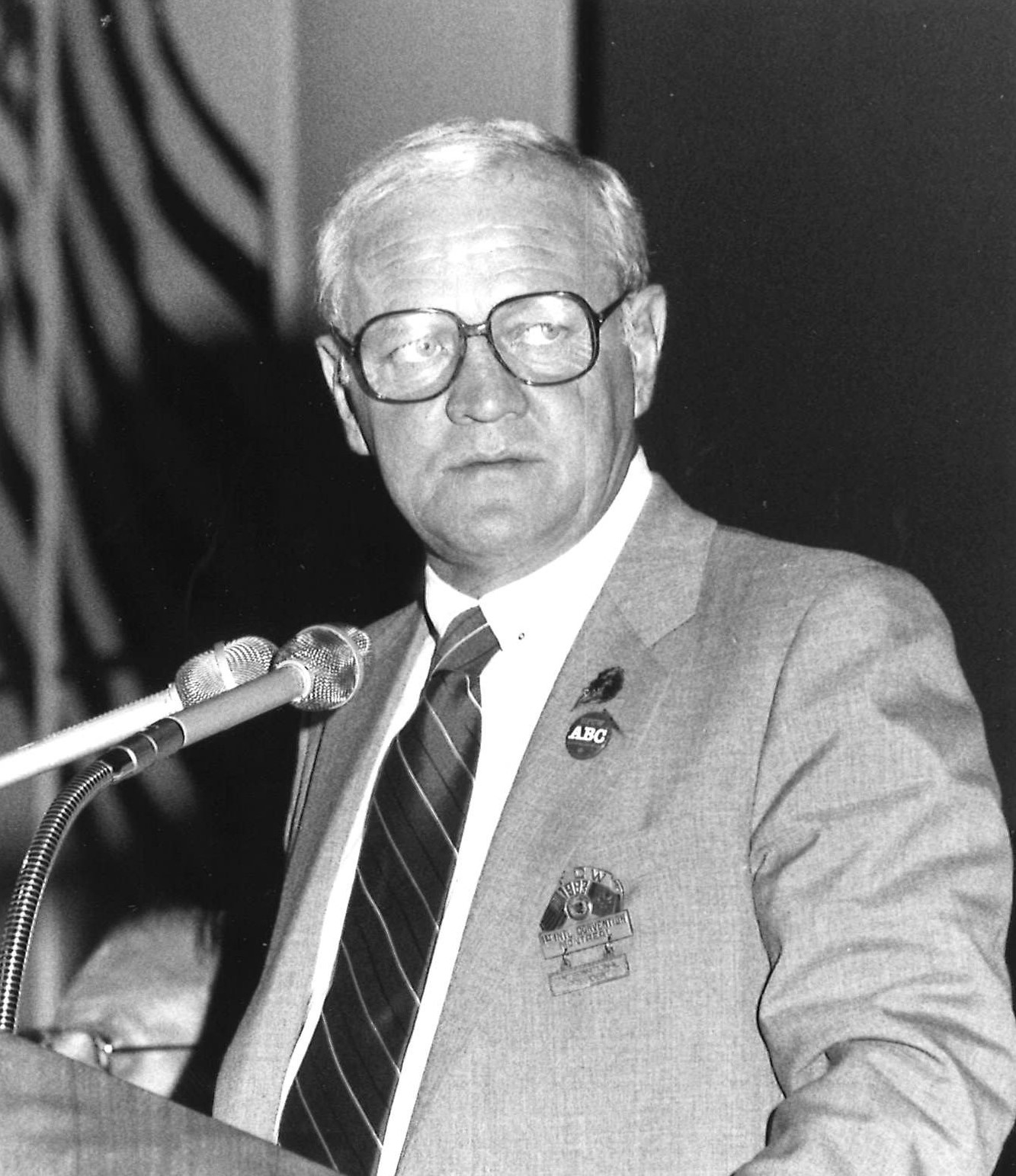 UFCW President William H. Wynn addressing UFCW International Convention in Montreal, 1983